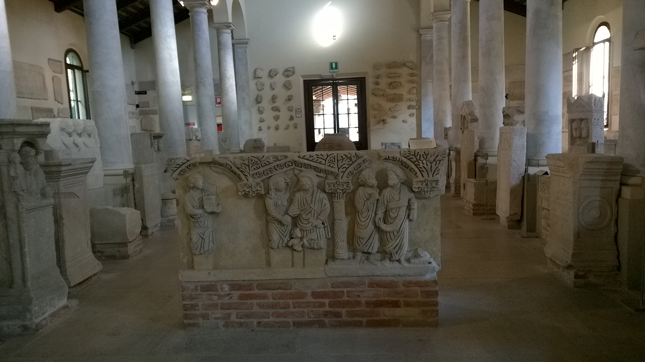 This is a photo of a monument which is part of cultural heritage of Italy.